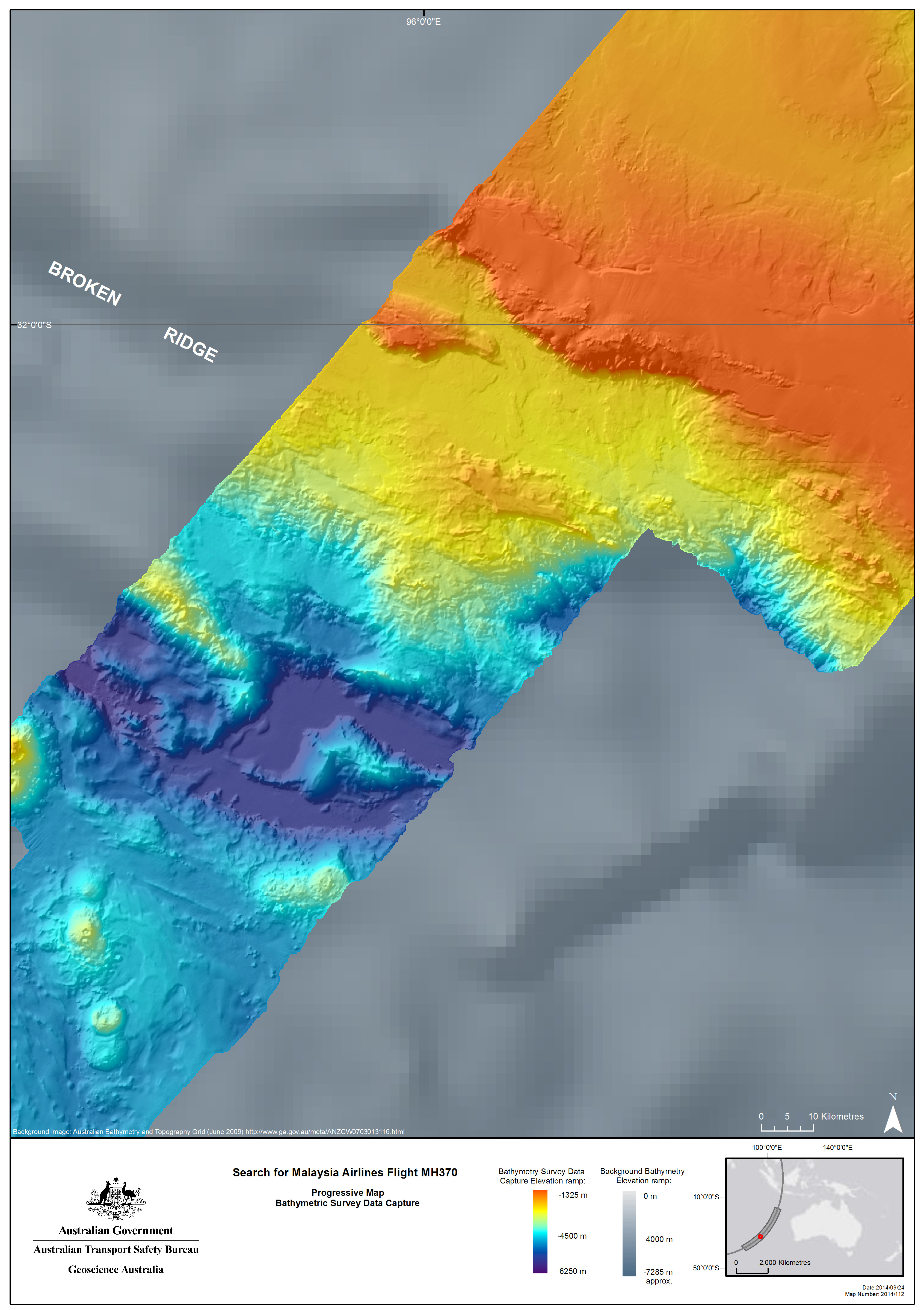 Image of bathymetric data obtained from a bathymetric survey conducted in the Southern Indian Ocean as part of the search for Malaysia Airlines Flight 370 (MH370) between March & September 2014. The grey area is bathymetric data that was acquired by satellite, which contrasts with the detailed data (colored) acquired by ships. The bathymetric survey was conducted prior to an underwater search to be conducted by towed imaging devices, which will be maneuvered 100 m above the sea floor. The contrast in resolution between the satellite and the ship-conducted survey highlights the reason that the ship-conducted bathymetric survey was necessary before begining the underwater search.